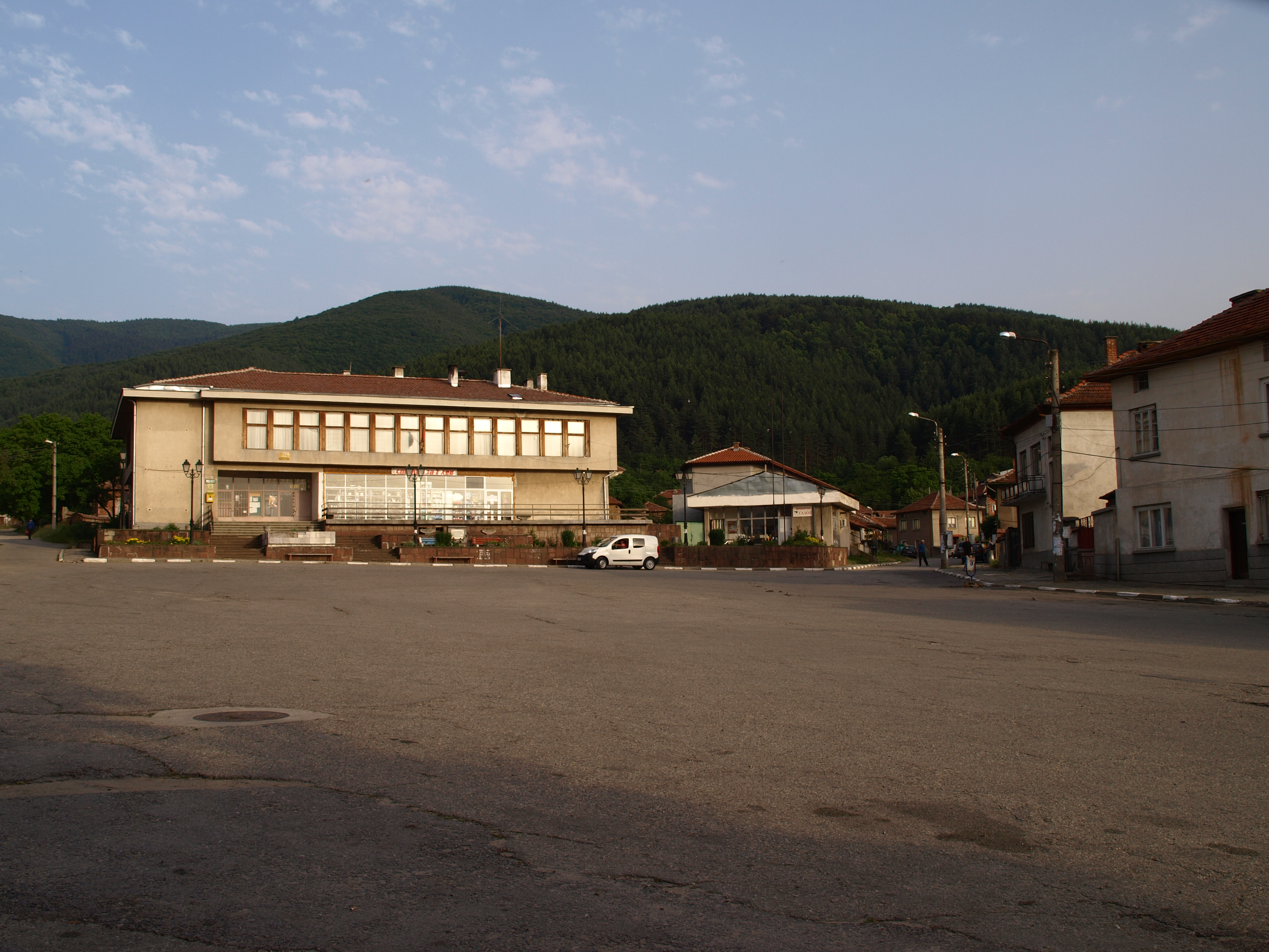 Saparevo central square and village hall